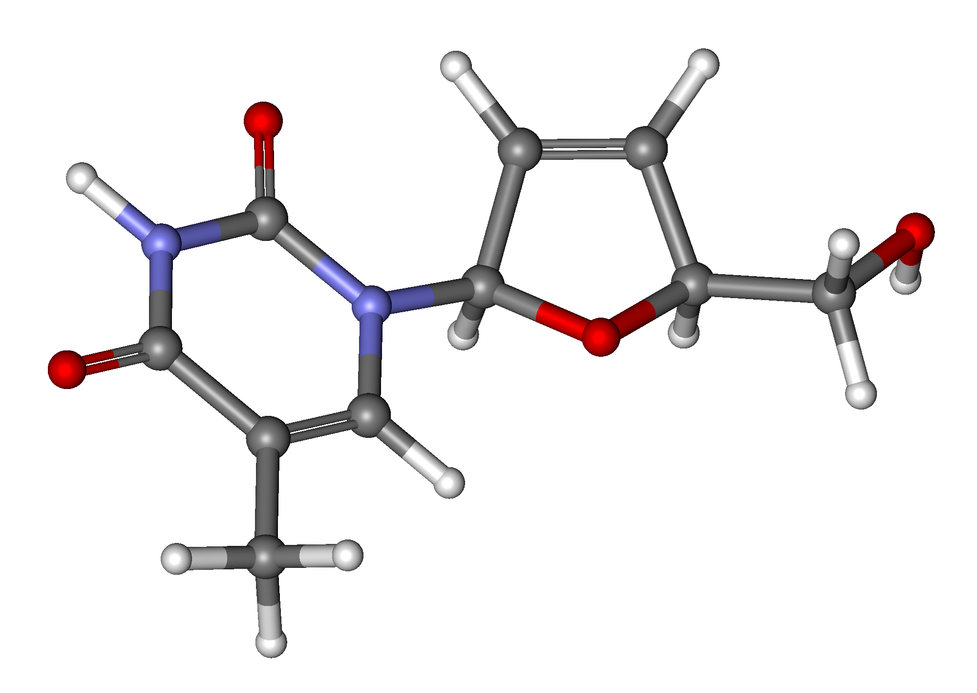 Ball-and-stick model of stavudine molecule. The structure is taken from ChemSpider. ID 17270